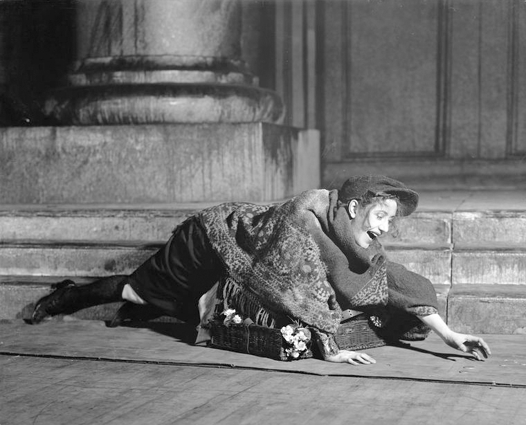 Photograph of Lynn Fontanne in the Theatre Guild production of Pygmalion